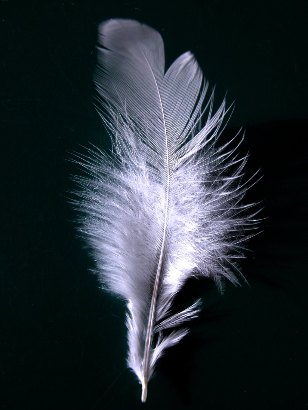 A single white feather closeup.